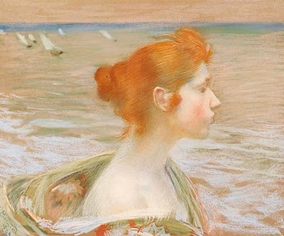 The redhead